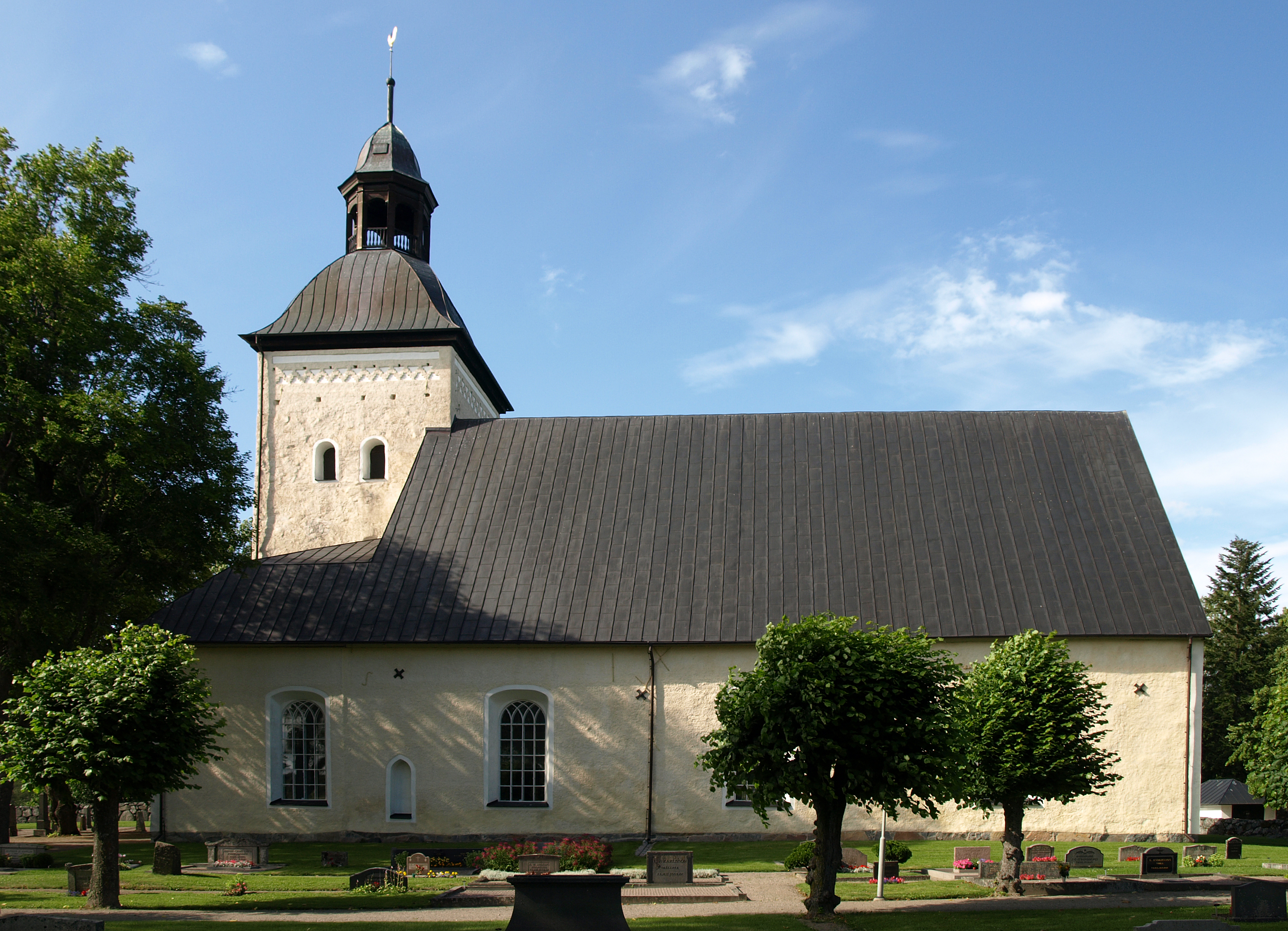 Tillinge church, Uppland, Sweden